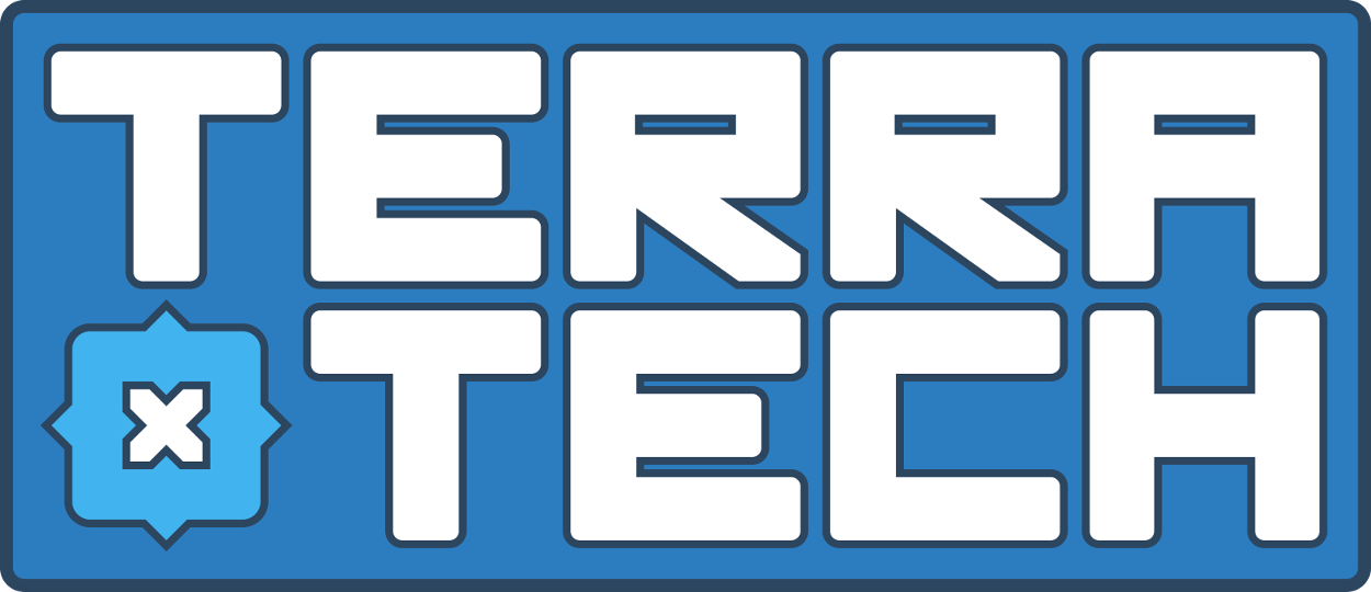 Logo for the videogame TerraTech (2018).